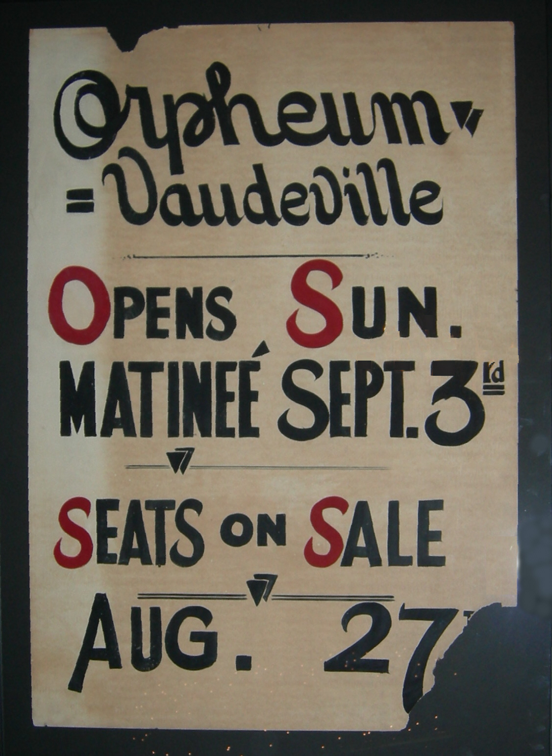 Sign for an annual opening of the Orpheum vaudeville at the Moore Theatre, Seattle, Washington.